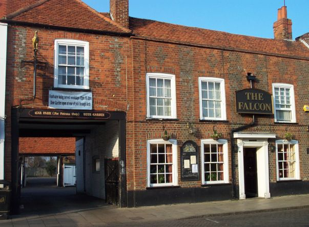 The Falcon, Theale, Berkshire, England.